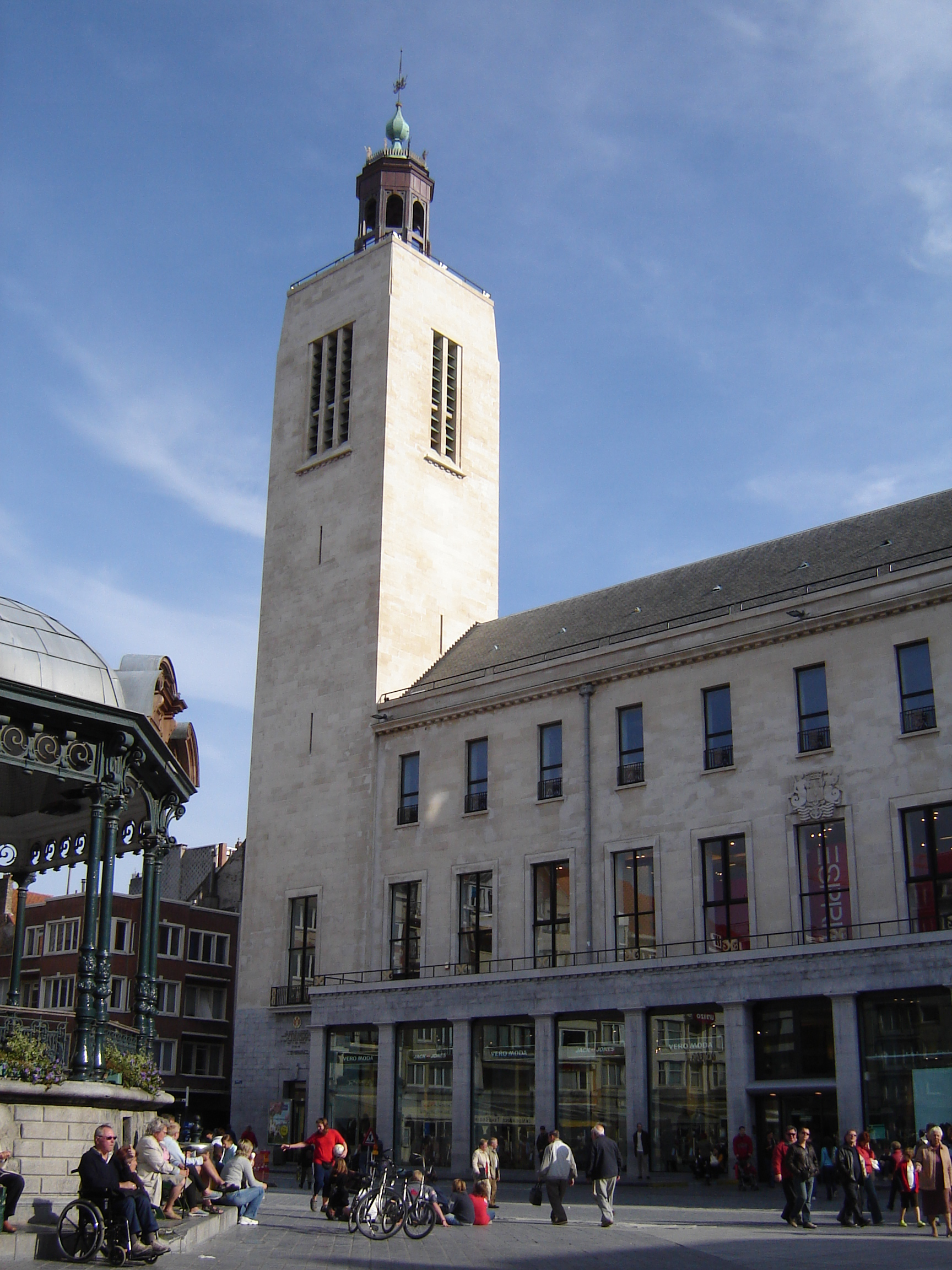 "Feest- en Cultuurpaleis" in Oostende. Oostende, West Flanders, Belgium